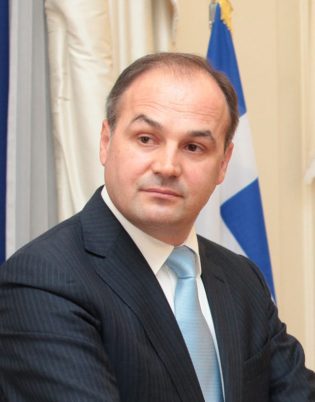 Enver Hoxhaj, Foreign Minister of Kosovo at the Ministry of Foreign Affairs in Greece.